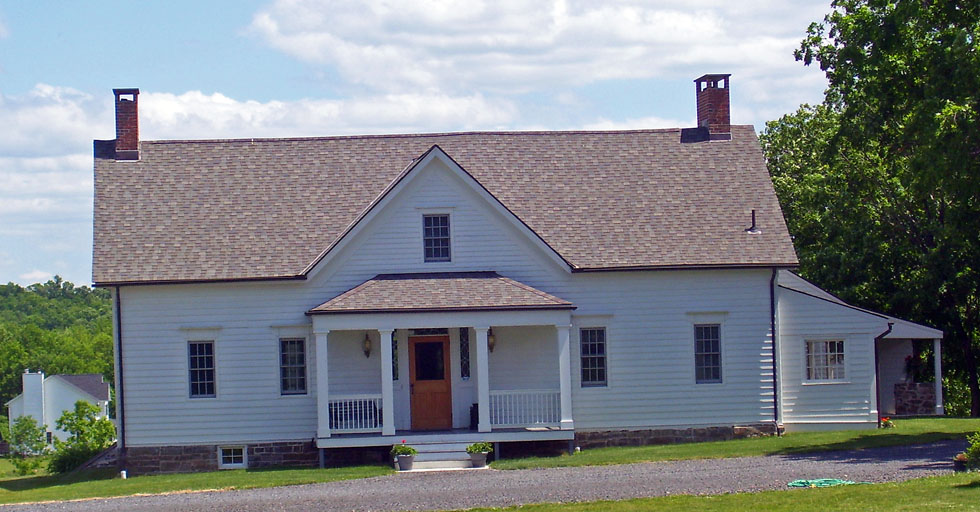 Photographed by Daniel Case 2007-06-06